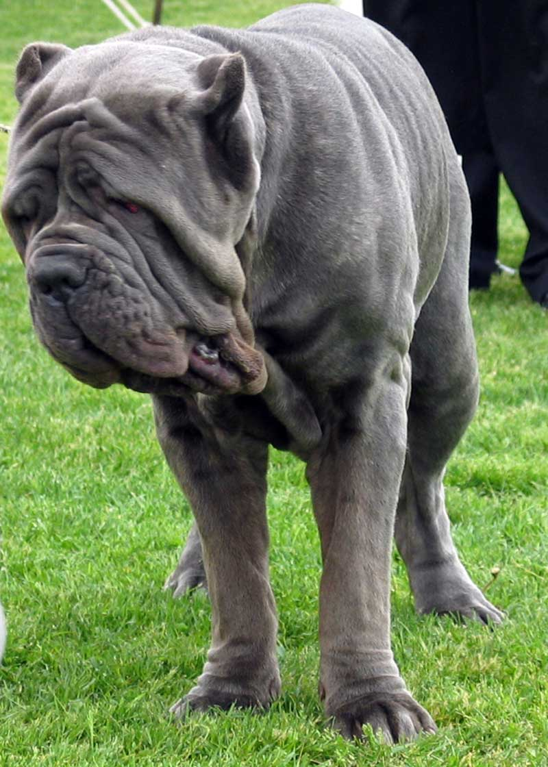 A Neapolitan Mastiff.